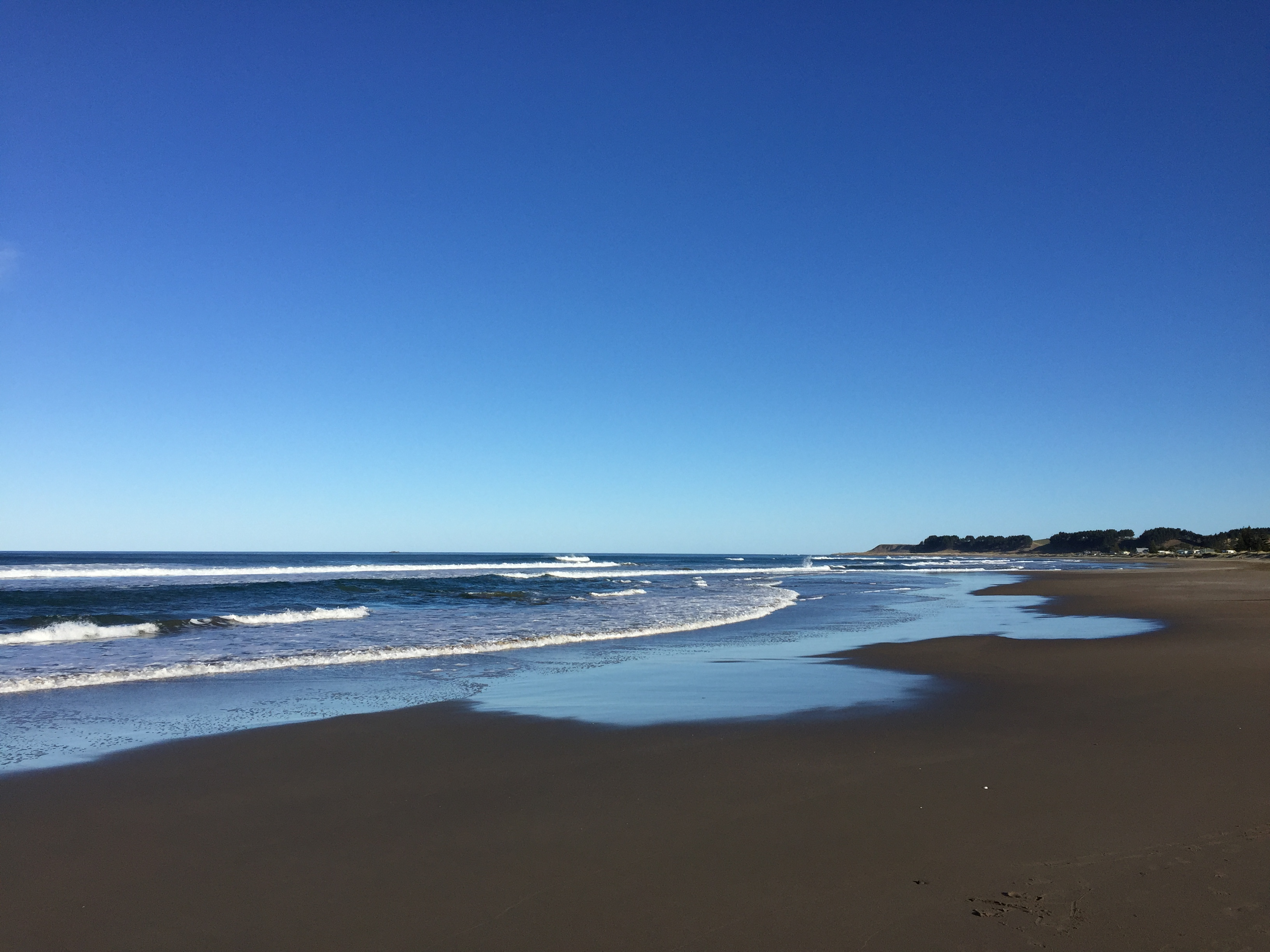 Waves looking at the sea at Riversdale Beach.